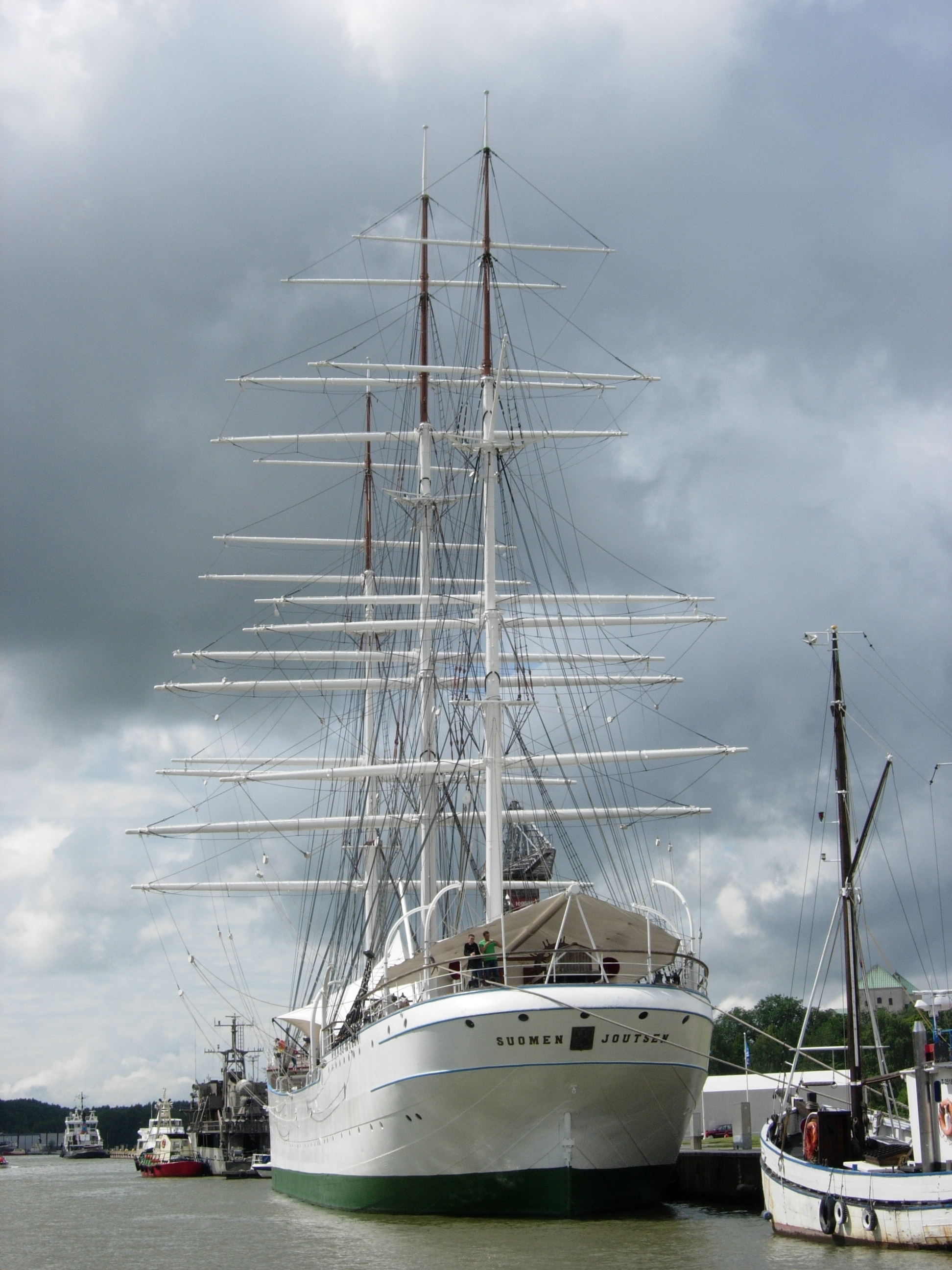 Suomen Joutsen